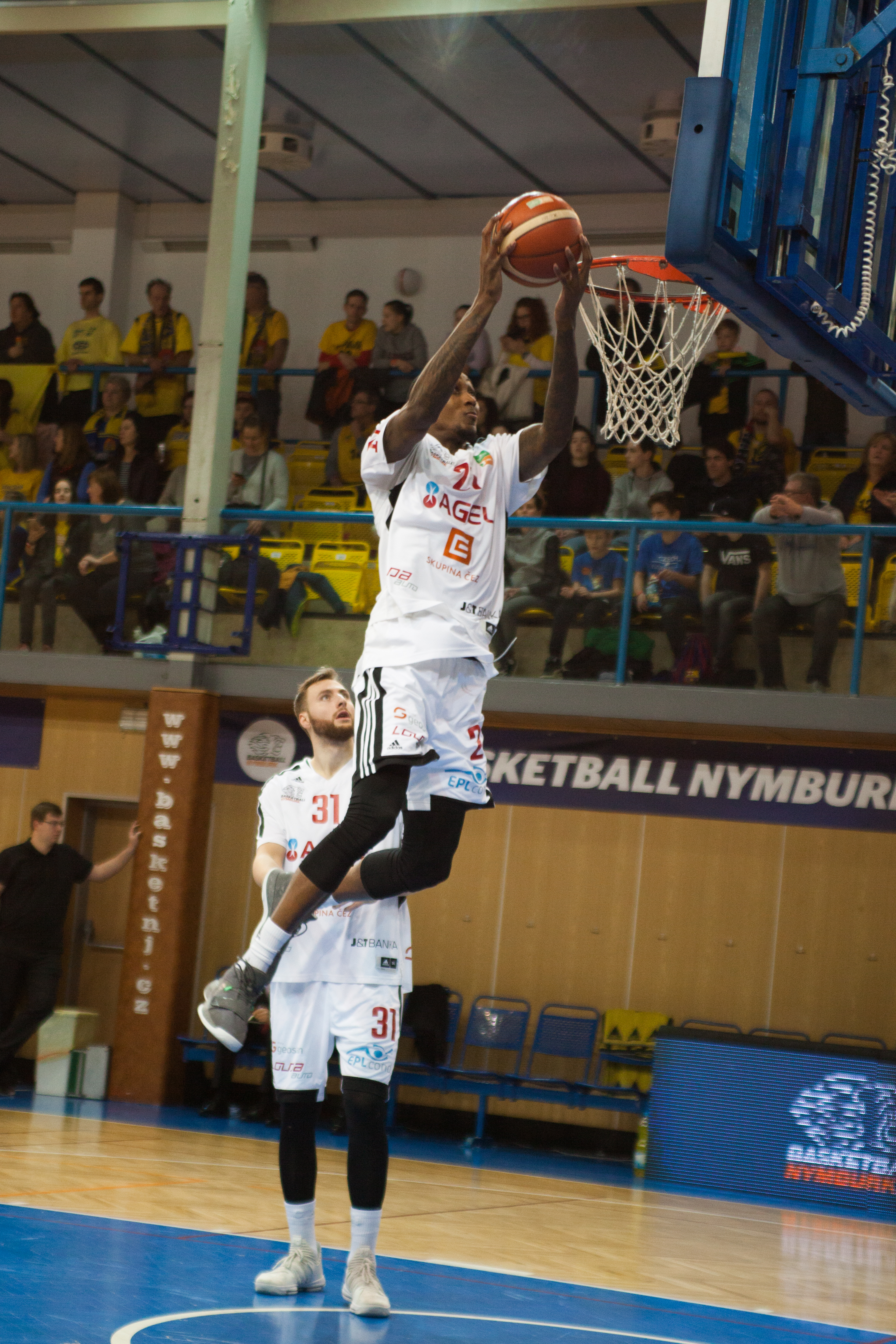 Final match of Czech basketball cup Hyundai Final4 between clubs BK Opava-ČEZ Basketball Nymburk (Nový Jičín, 10 February 2019)